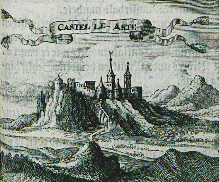 Jacob Enderlin. Archipelagus Turbatus, Oder Deß Schönen Griechen-Lands, Augsburg, Jacob Enderlin, MDCLXXXVI (1686)